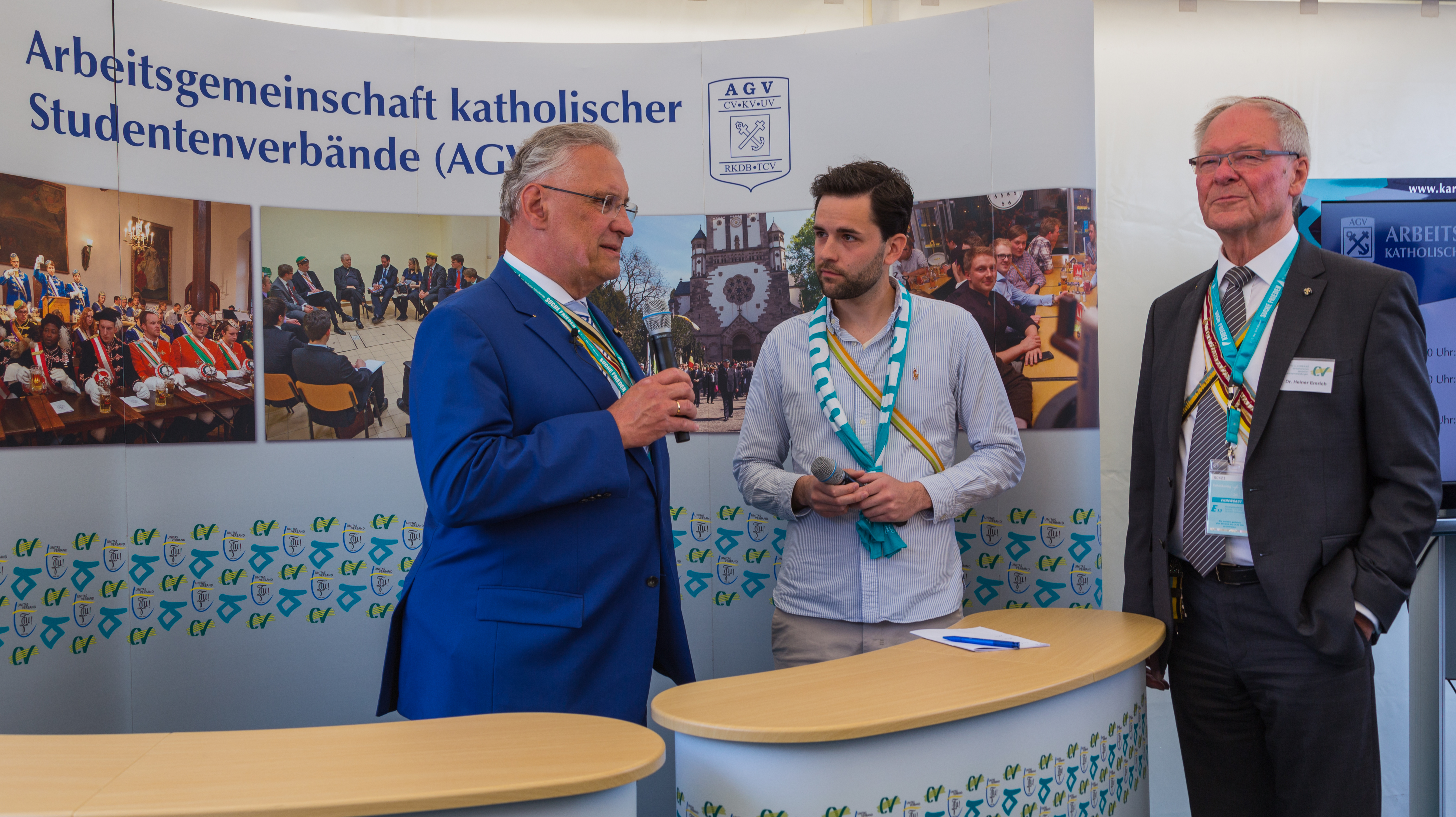 Joachim Herrmann (left), Minister of the Interior of the state of Bavaria, in conversation with Johannes Winkel, chairman of the Arbeitsgemeinschaft katholischer Studentenverbände (AGV) e.V., at the 101st German Catholic Convention (101. Deutscher Katholikentag) in Münster, North Rhine-Westphalia, Germany. On the right: Dr. Heiner Emrich.